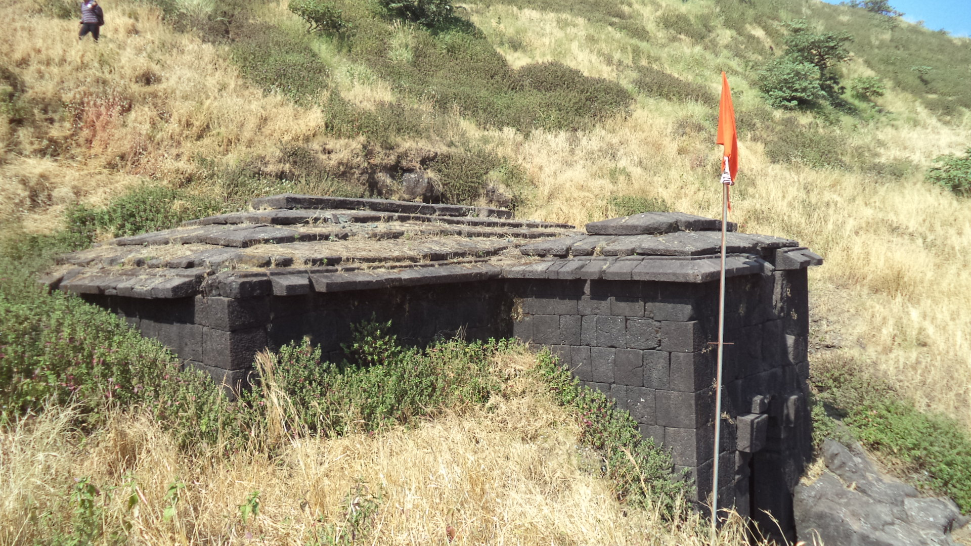 Jivdhan storage building